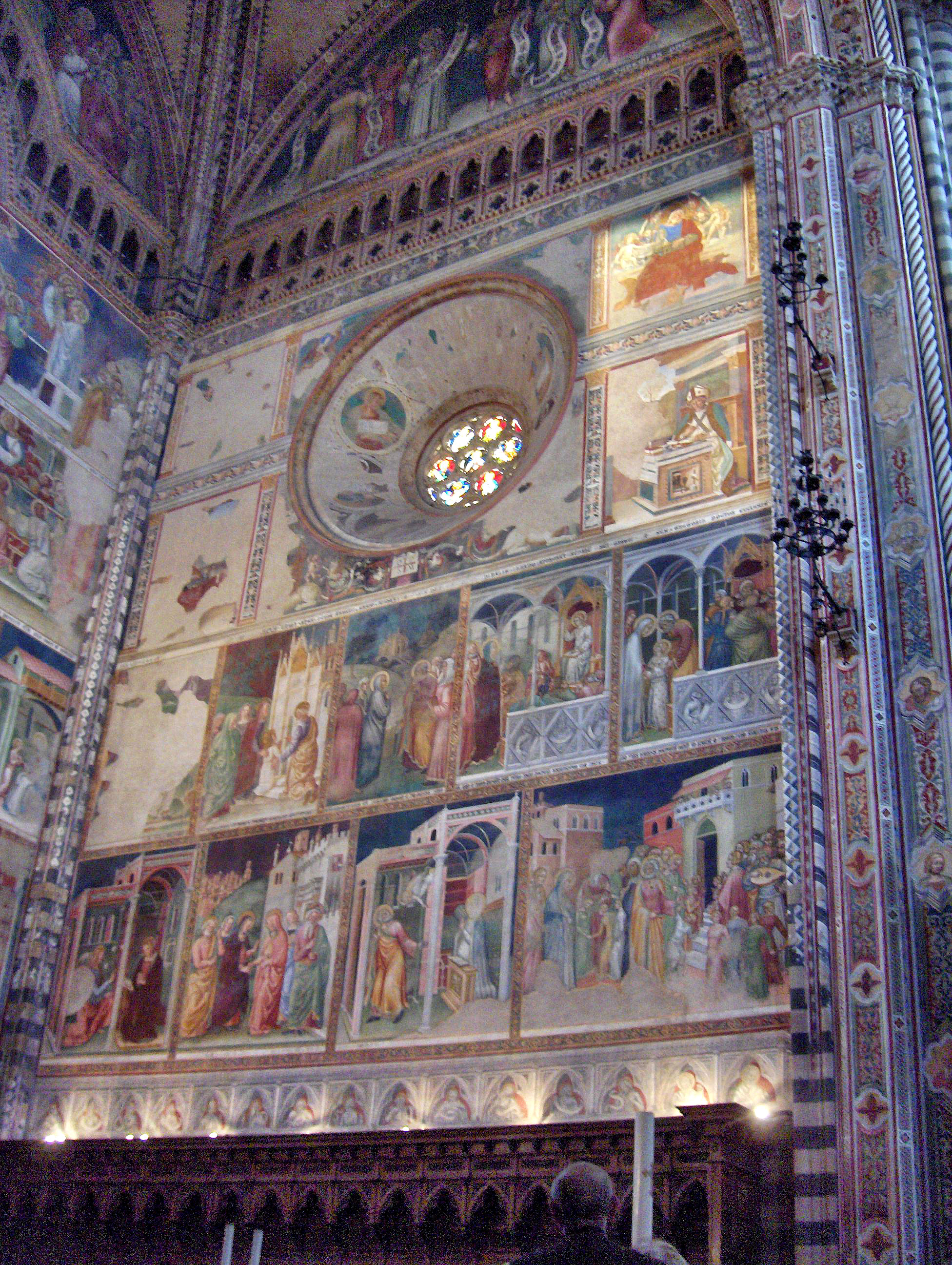 Frescoes with scenes from the life of Mary; work begun by Ugolino di Prete Ilario (1370); apse; Cathedral of Orvieto, Italy